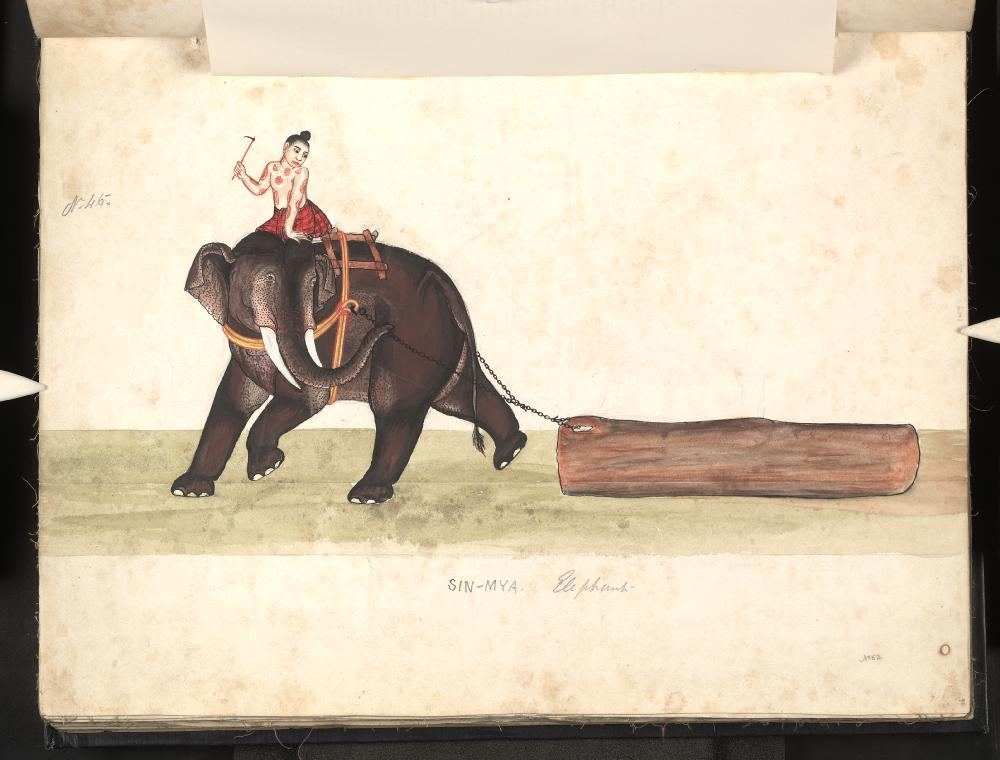 Watercolour painting by an unknown Burmese artist depicting 19th century Burmese life. Text: SIN-MYA Elephant